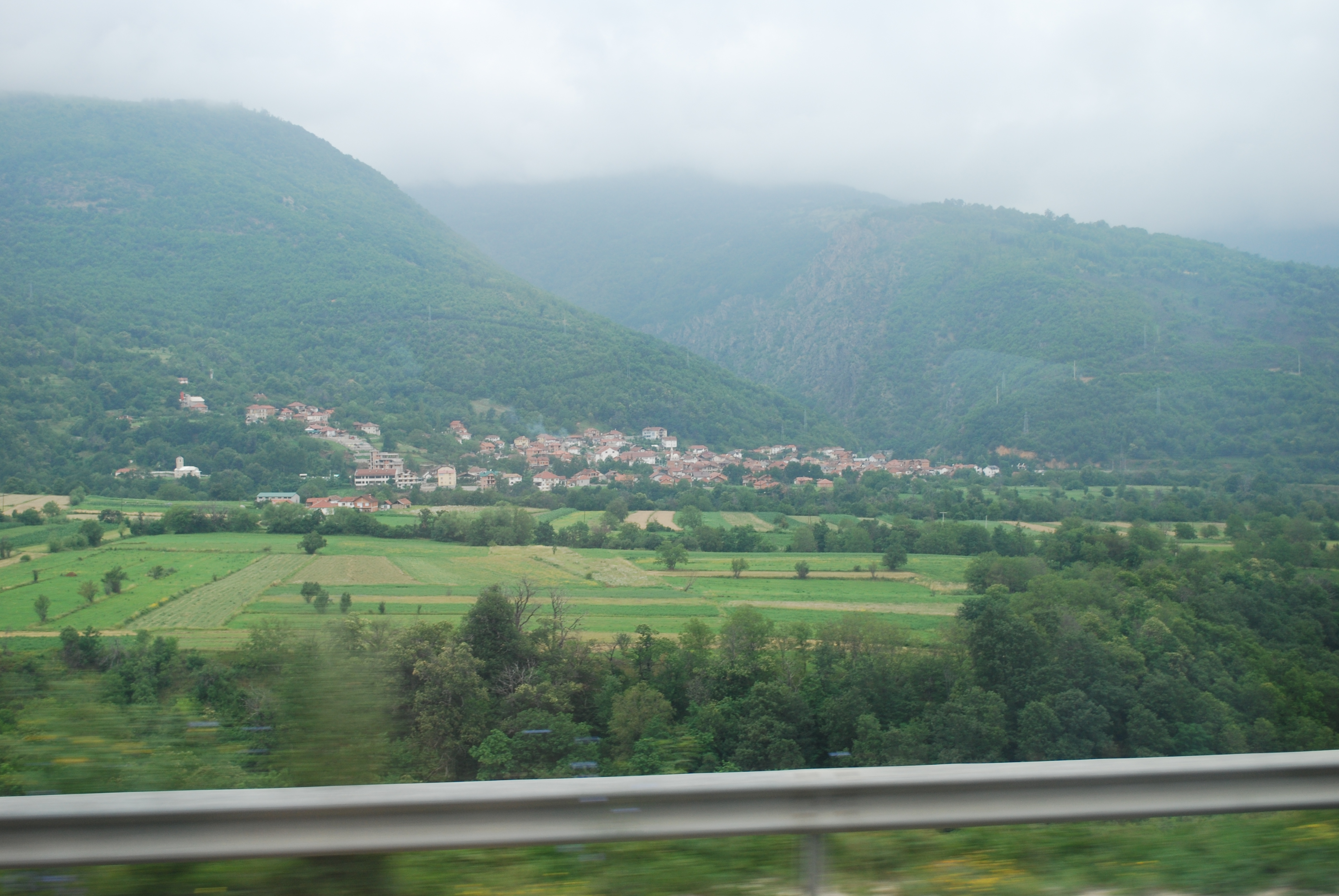 Vrutok, Gostivar, Macedonia